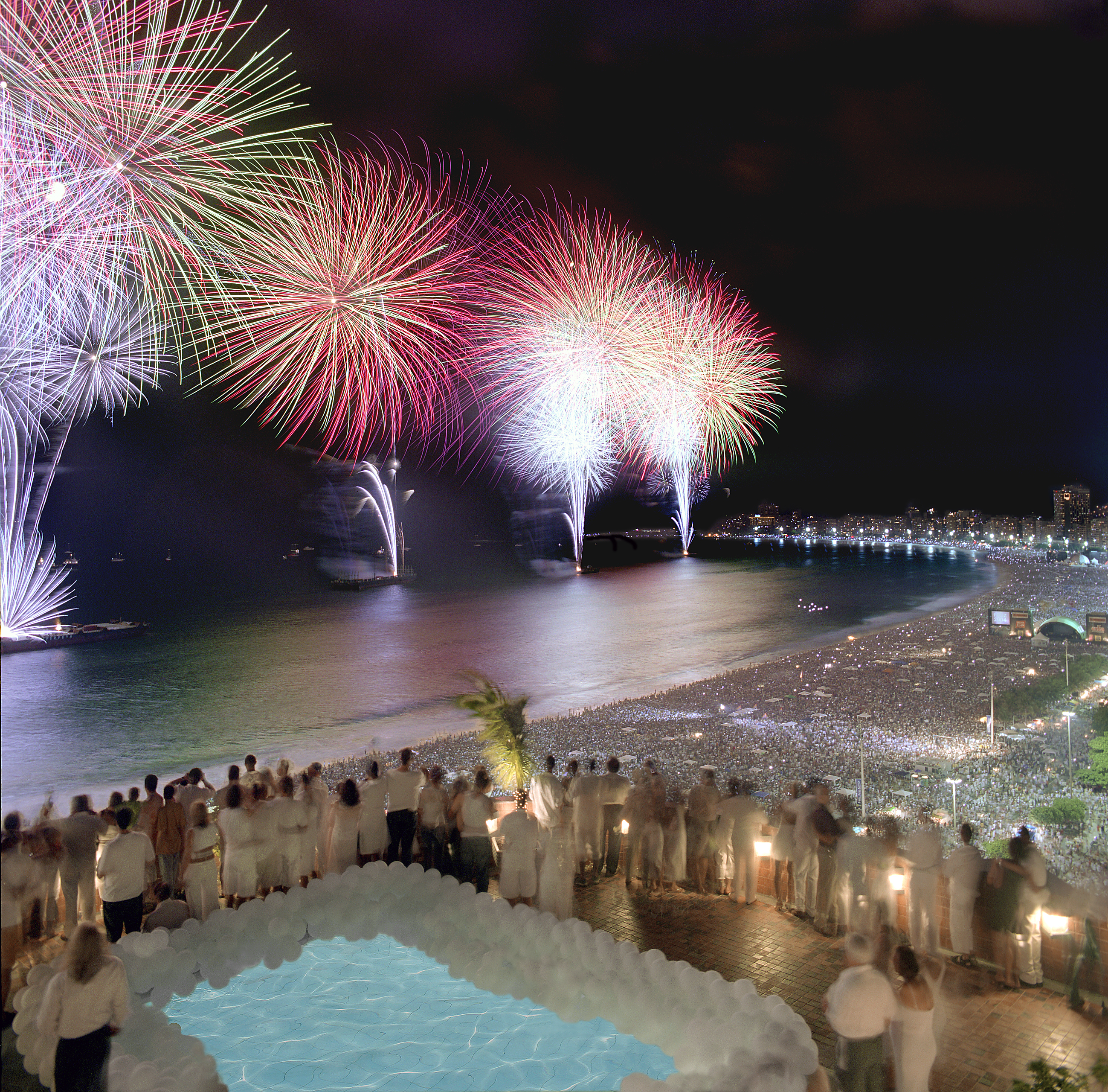 Rio de Janeiro, New year's firework in Copacabana Beach, 2004